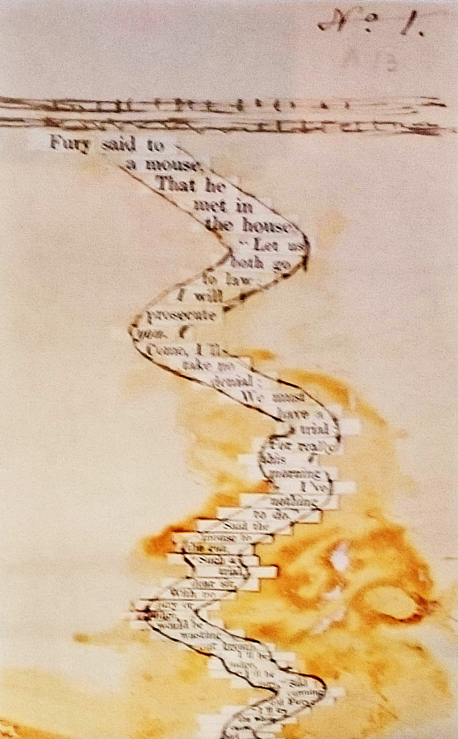 Paste-up of 'The mouse's tale' prepared to guide the make-up of the composition. (Photo: AM/Aepm)